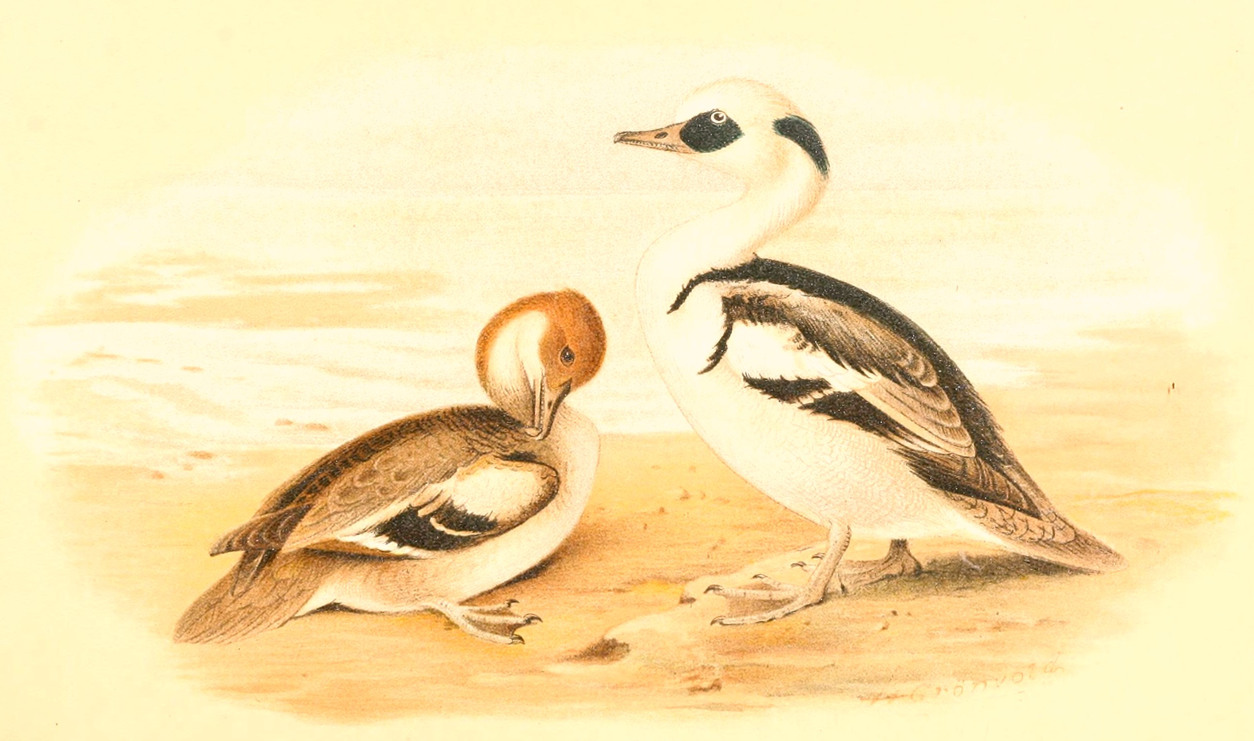 The Smew Mergus albellus = Mergellus albellus (Smew)